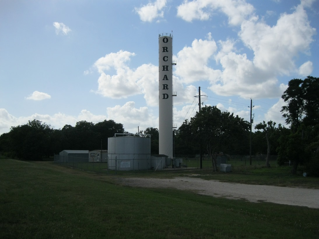 Photo shows the distinctive water tower located west of Missouri and Galveston Streets in Orchard, Texas. View is to the northwest.